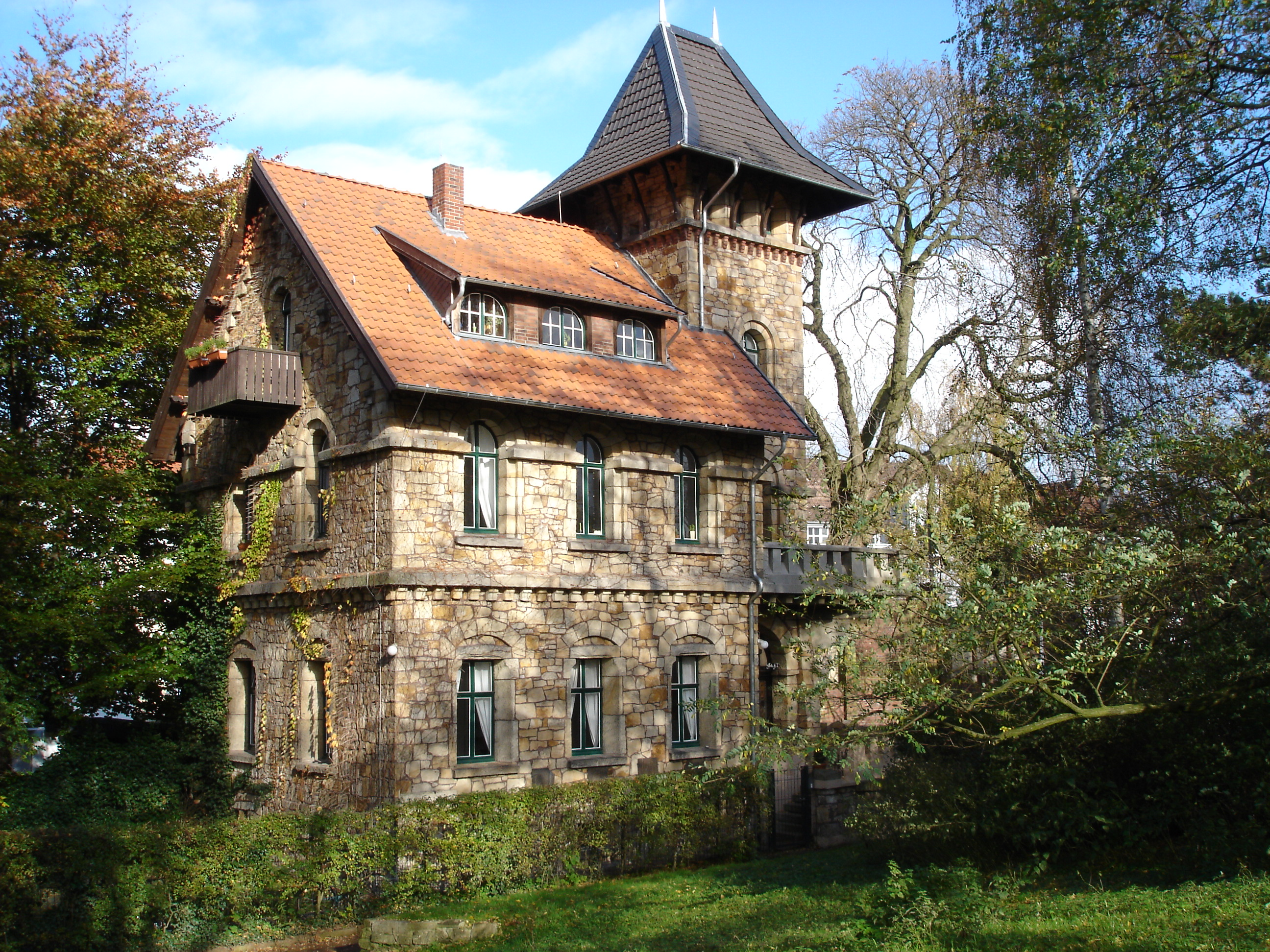 The Tuckesburg in the city of Münster (Westphalia), Germany